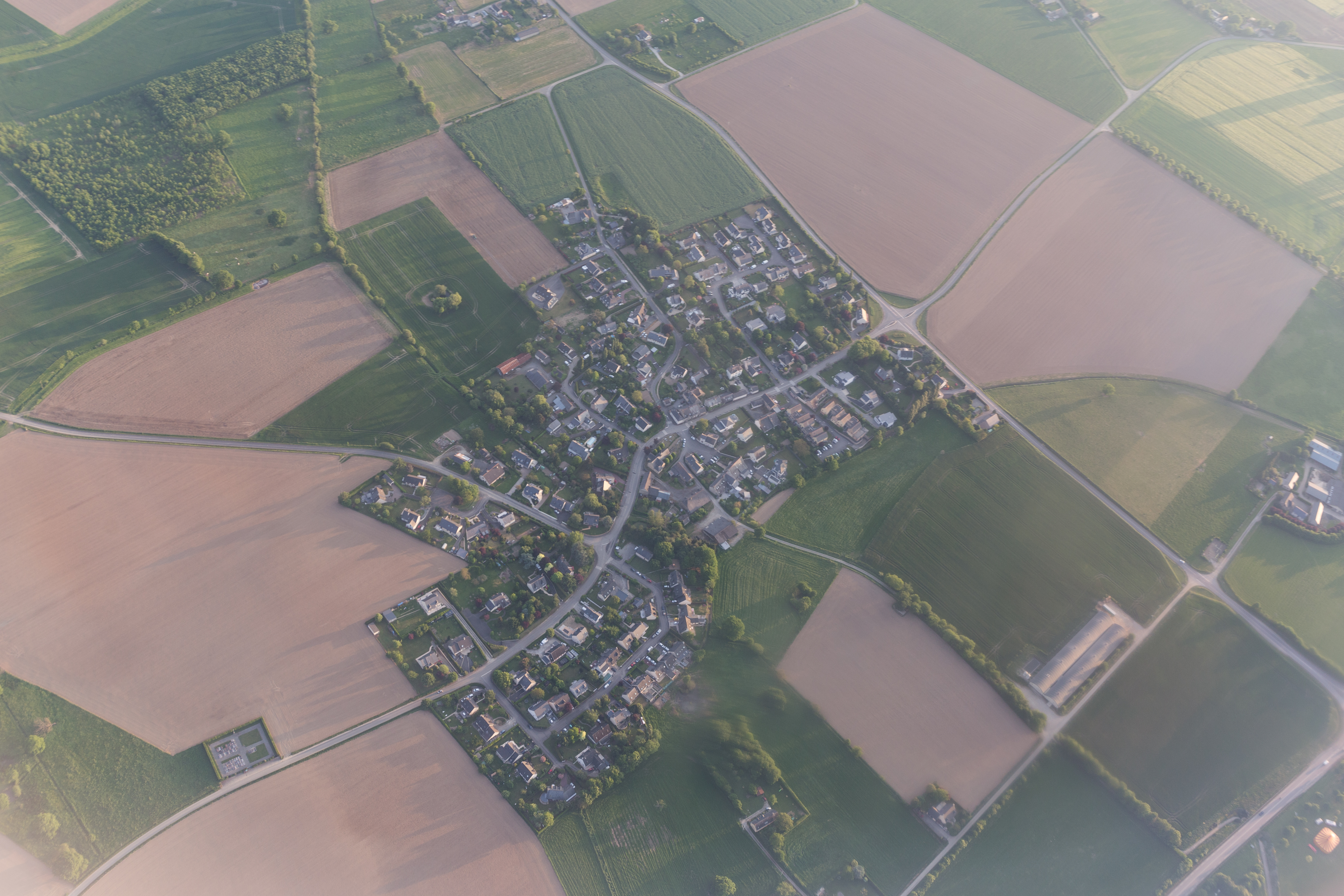 Aerial view of the village of Veneffles in Châteaugiron during a flight between LYS and RNS.